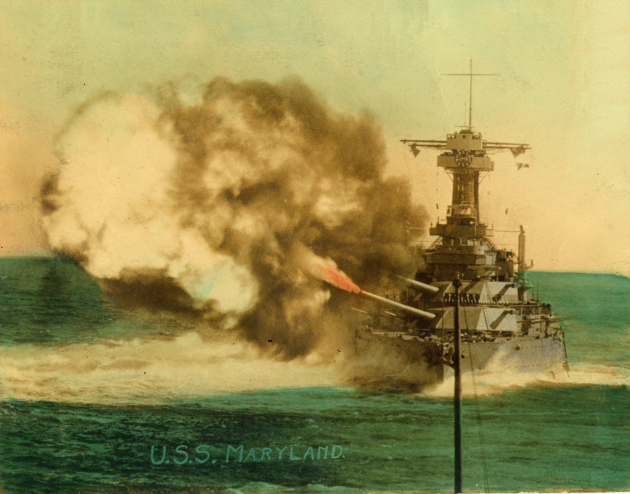 The U.S. Navy battleship USS Maryland (BB-46) fires a broadside with her 40.6 cm (16 in) guns during exercises in the Pacific Ocean, 1924-1927.